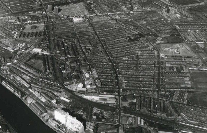 Byker, Newcastle, September 1970